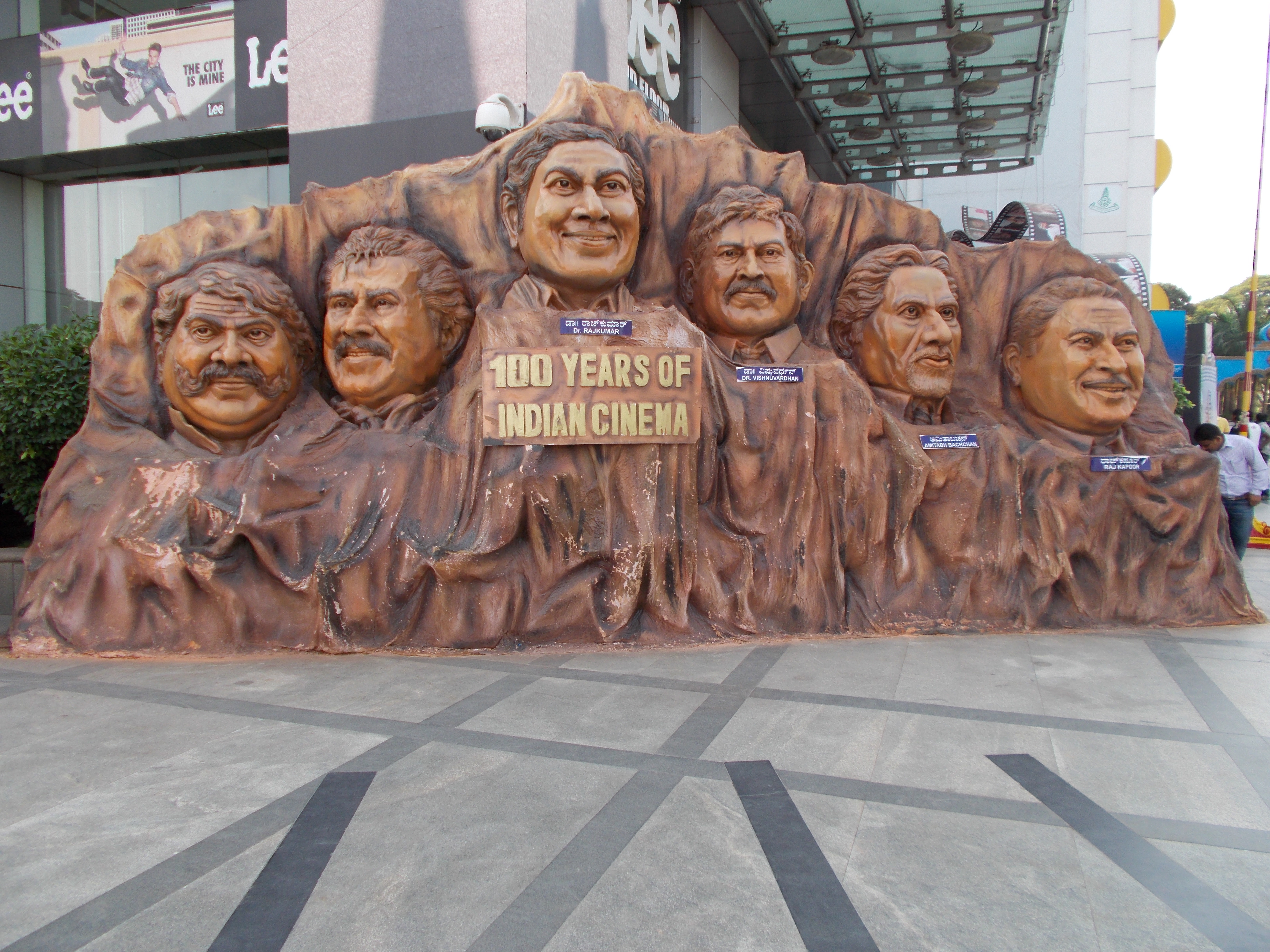 Garuda Mall on MG Road, Bangalore celebrates 100 years of Indian Cinema. A celebrity stone established at the entrance.